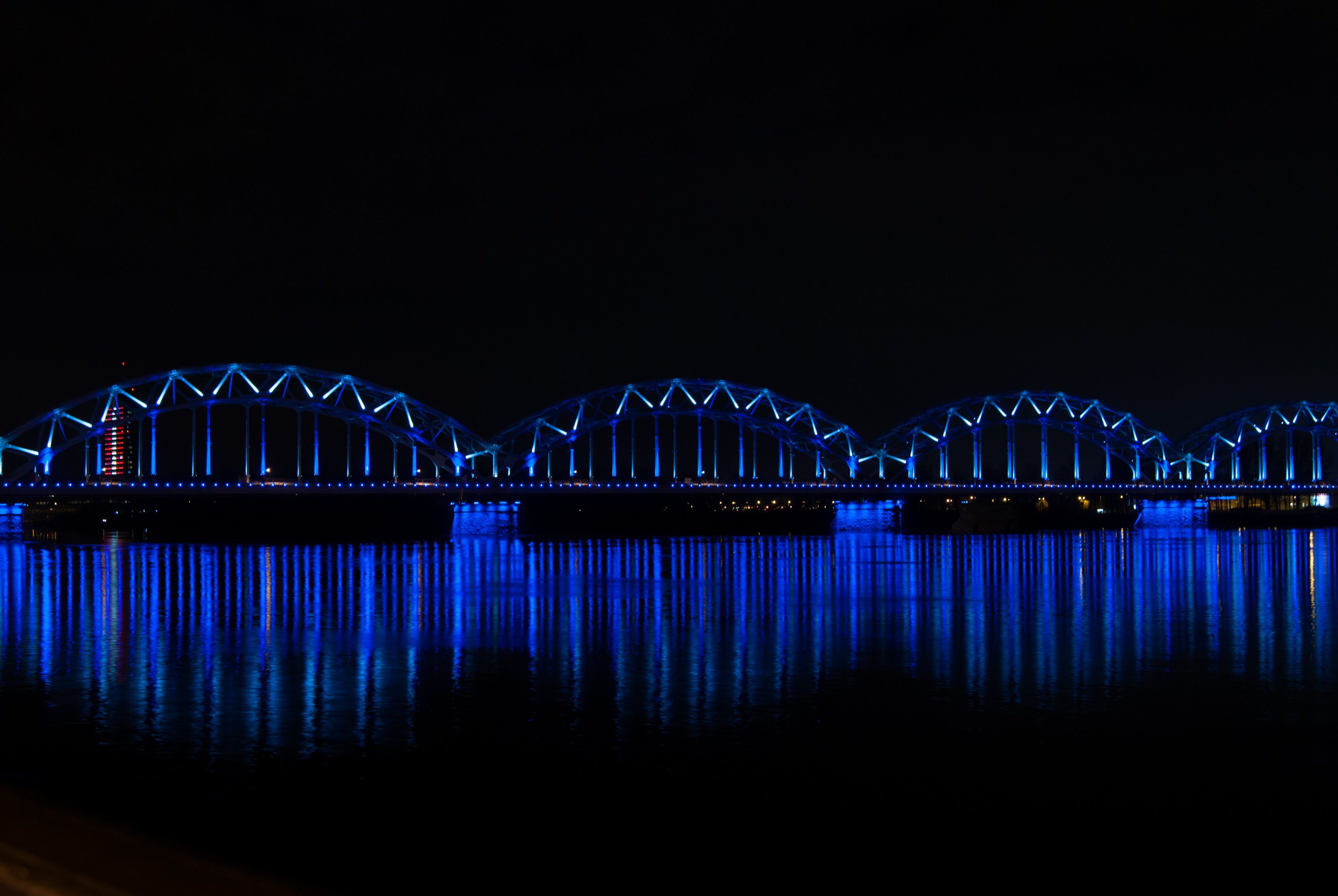 Railway bridge in Riga